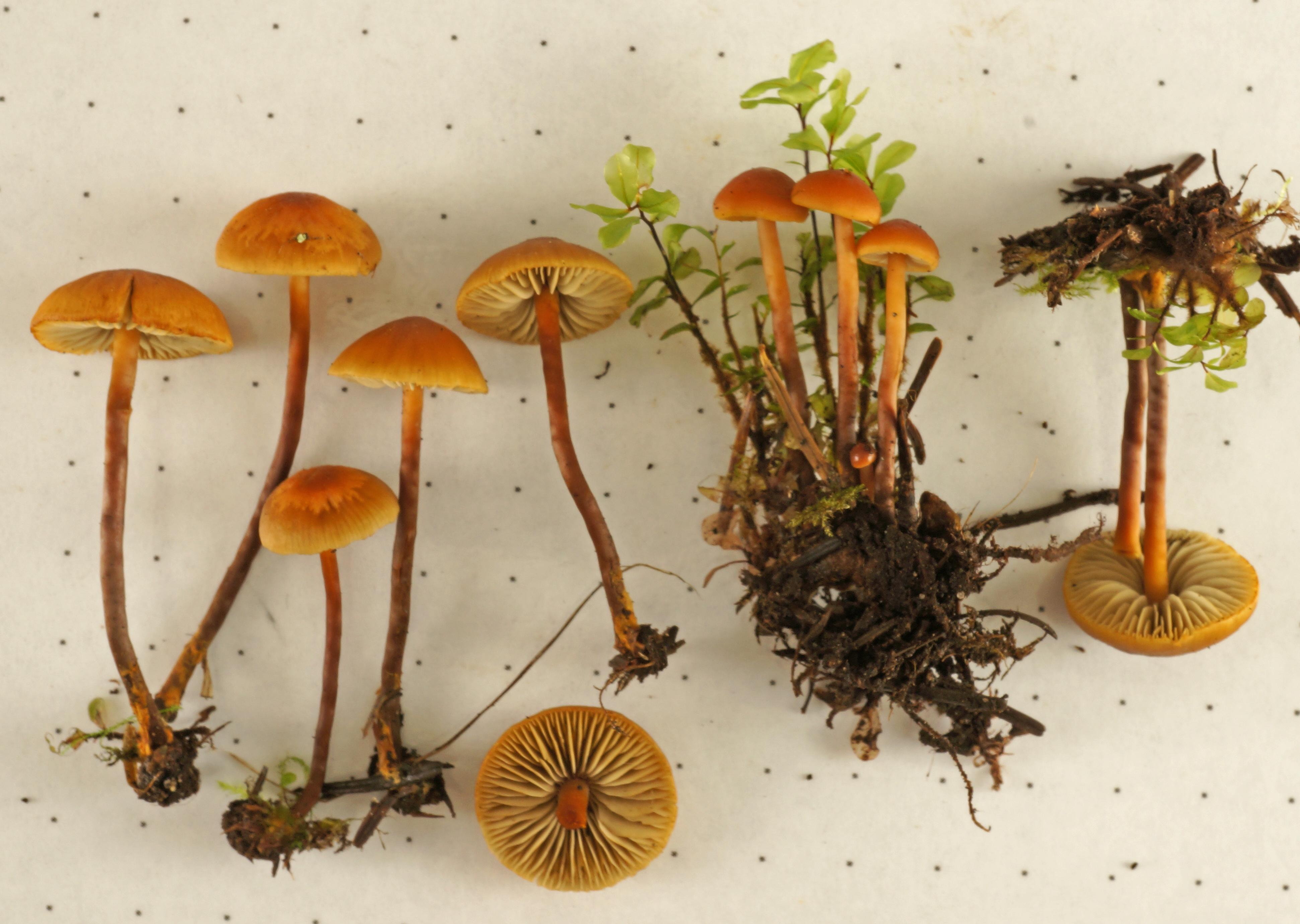 A collection of fruit bodies of the agaric fungus Mythicomyces corneipes (Fr.) Redhead & A.H. Sm. Collected near Trout Lake, Washington, USA. "Notes: Growing in duff/moss on the side of a small stream of water. Spore print light brown (but rather weak). Spores 6-8 × 4-5 microns."